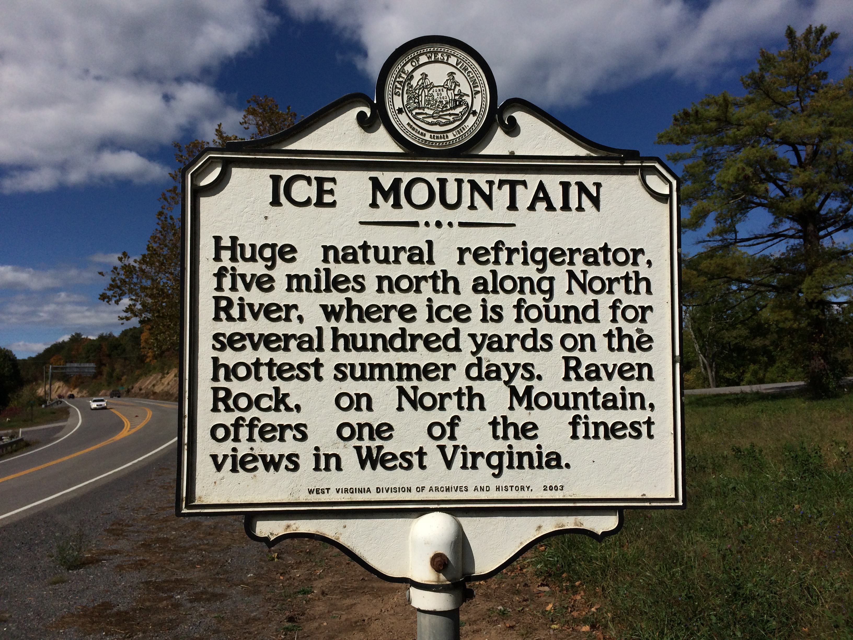 A West Virginia state highway historical marker illustrating a brief description of Ice Mountain. The marker reads: "Huge natural refrigerator, five miles north along North River, where ice is found for several hundred yards on the hottest summer days. Raven Rock, on North Mountain, offers one of the finest views in West Virginia." The highway historical marker is located at the intersection of Northwestern Pike (U.S. Route 50) and West Virginia Route 29 between Augusta and Pleasant Dale, West Virginia. Photographed by Justin A. Wilcox of Washington, D.C. on October 5, 2014.